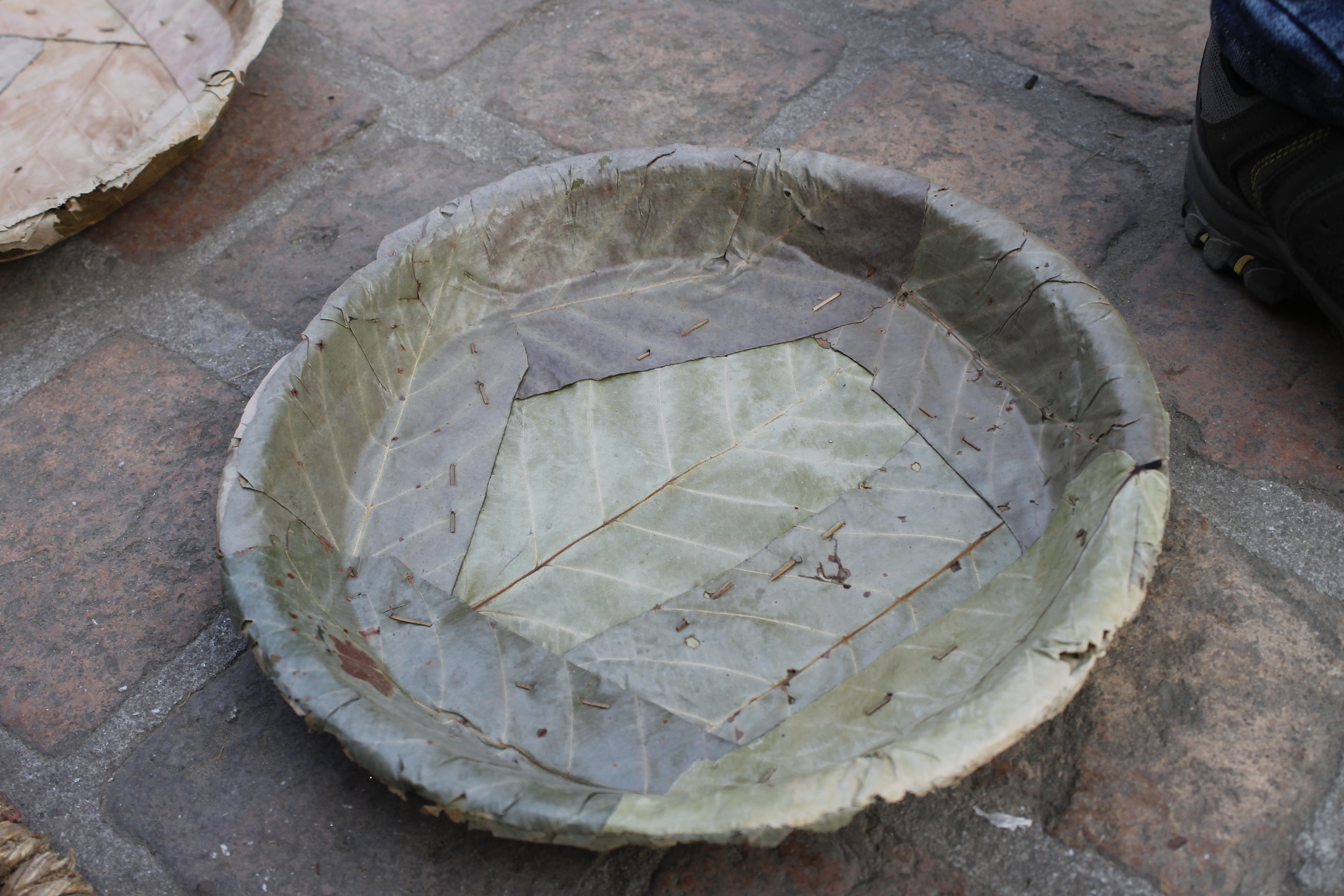 an ancient plate made of leaves.